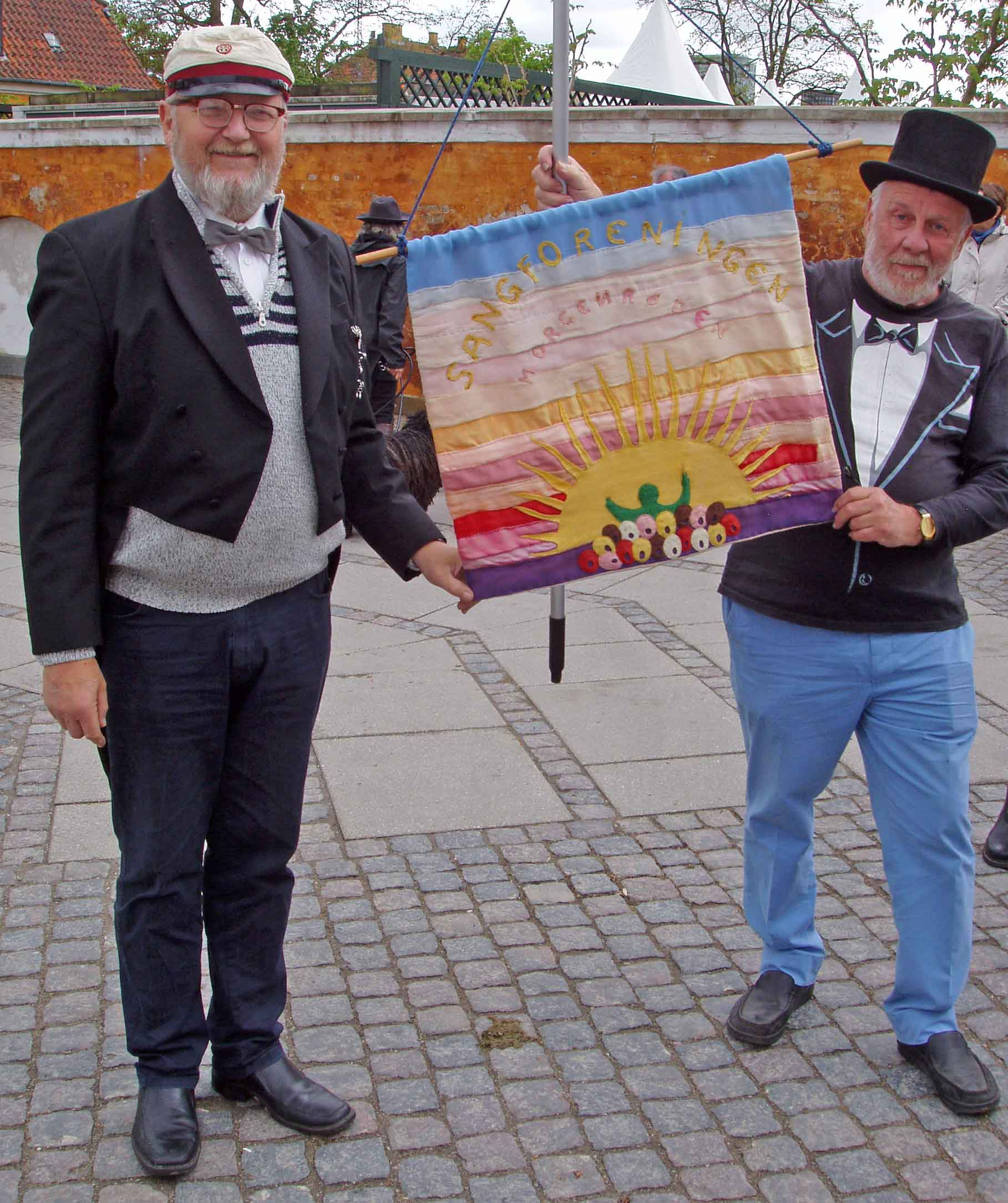 Sangforeningen Morgenrødens fanebærer Carsten Seeger th. og vicefanebærer Jens Christian Nielsen tv. klar til afgang fra Storm P Museet